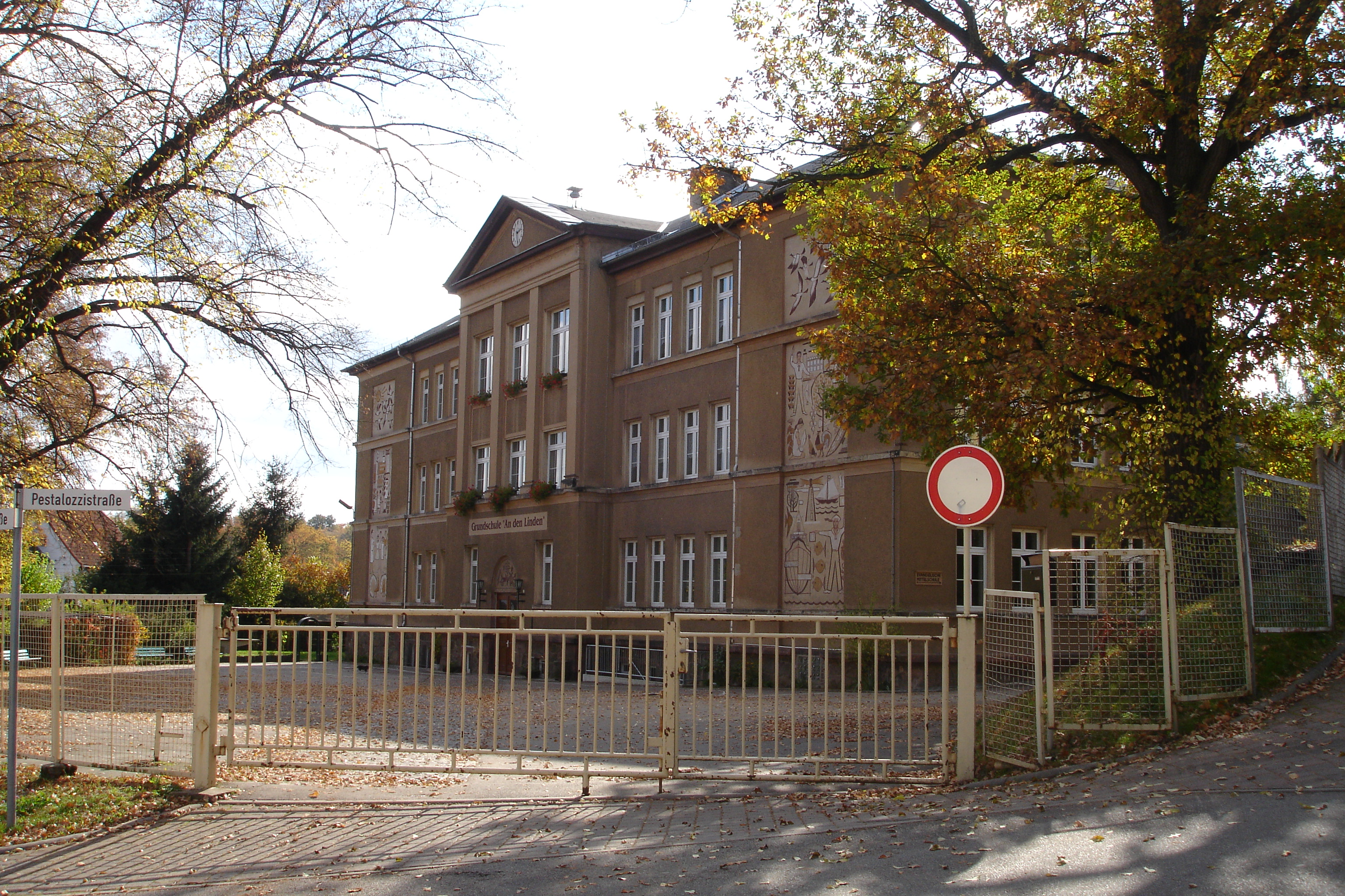 Primary School "An den Linden" of Lunzenau